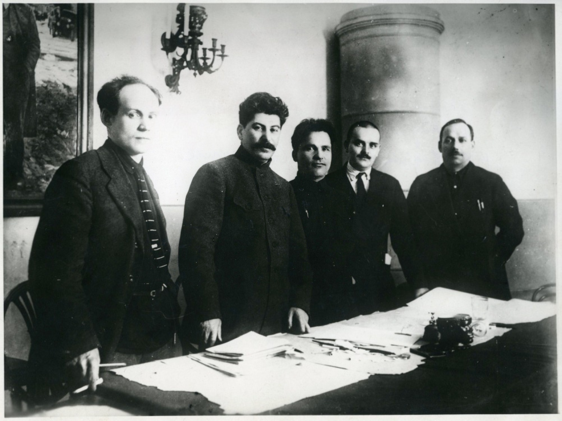 Nikolai Antipov (formerly the People's Commissar for Posts and Telegraphs of the USSR), Joseph Stalin, Sergei Kirov, Nikolai Shvernik, and Nicolay Komarov at Fifteenth Leningrad Regional Party Conference, Leningrad